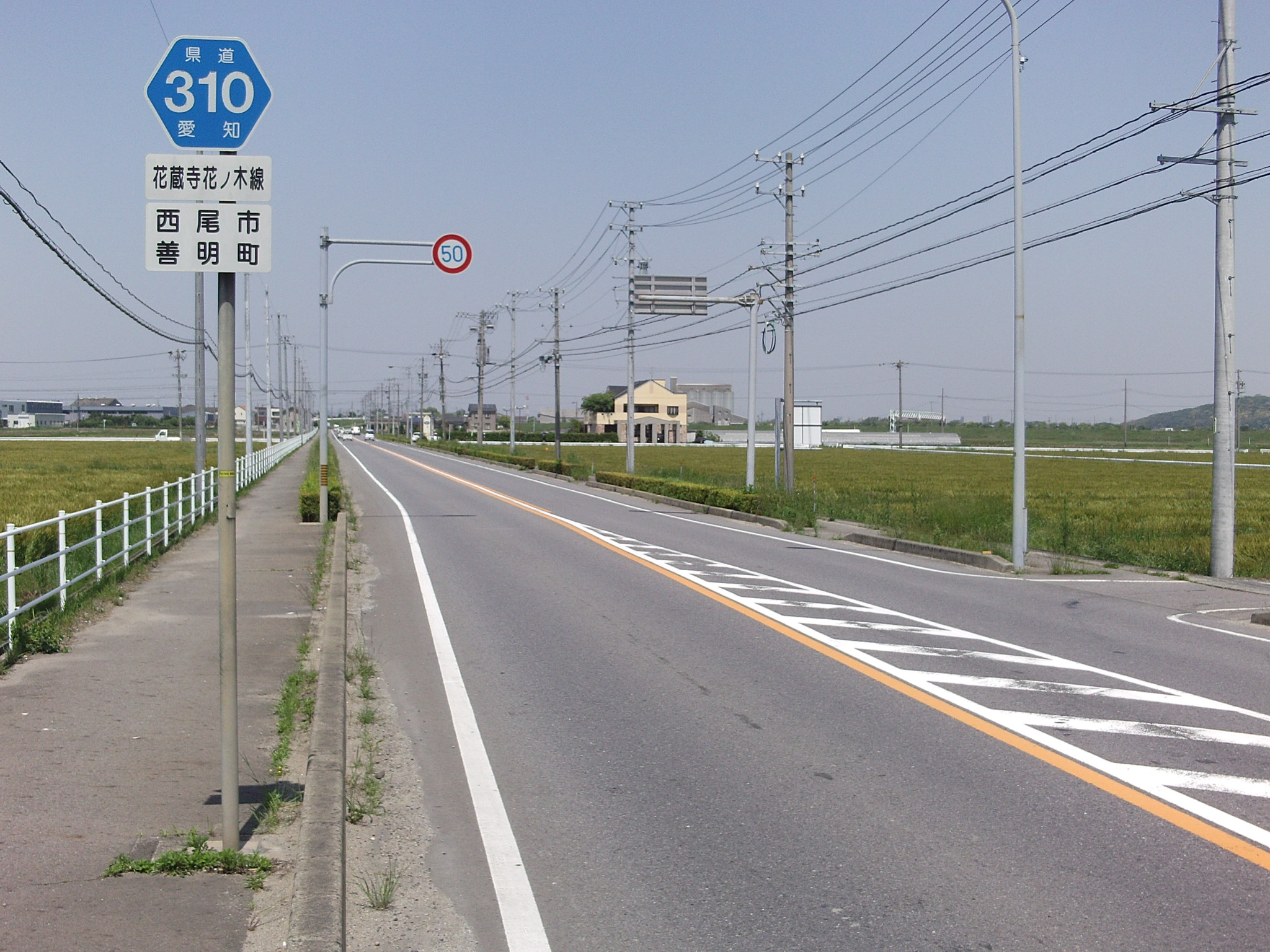 Aichi prefectural road No.310 in Zenmyocho, Nishio, Aichi.